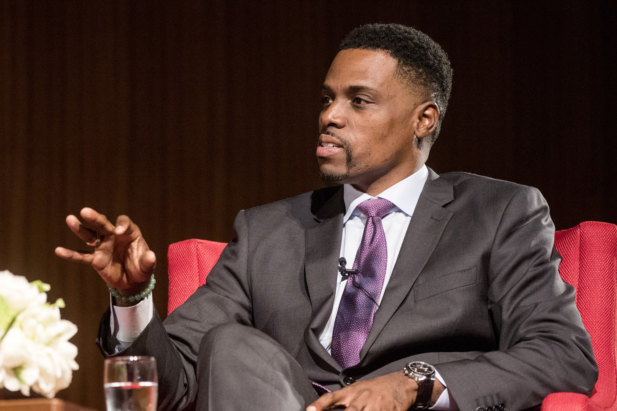 On Tuesday, September 18, 2018, the LBJ Presidential Library partnered with the University of Texas at Austin's Center for Sports Leadership & Innovation and UT’s Center for Sports Communication & Media for an evening of conversation about equality in sports. The event featured U.S. Olympic female fencer Ibtihaj Muhammad, a bronze medal winner; Nate Boyer, a former UT football player, Green Beret, and NFL player; and Daron K. Roberts, founding director of the Center for Sports Leadership & Innovation. The event was tied to the LBJ Library’s special exhibition, Get in the Game: The Fight for Equality in American Sports, on view through Sunday, Jan. 13, 2019. The conversation was moderated by Mark K. Updegrove, president, and CEO of the LBJ Foundation.